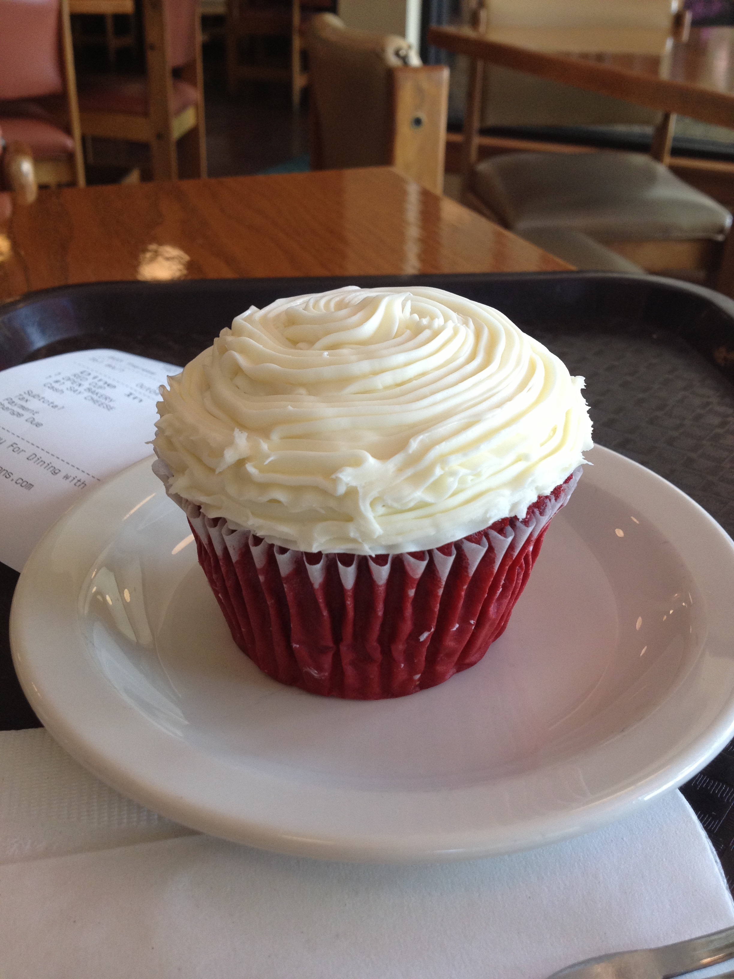 A red velvet cupcake with cream cheese frosting